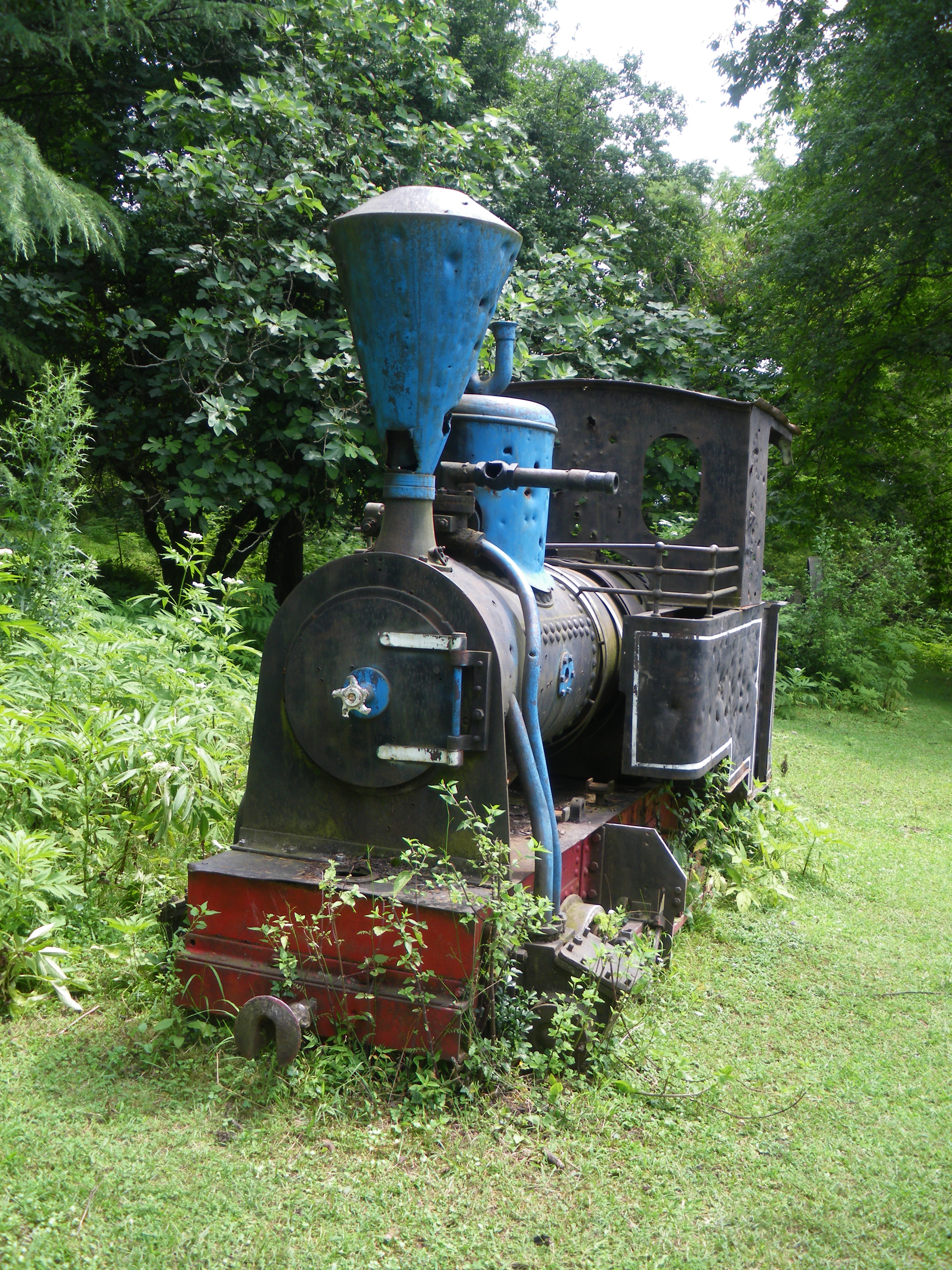 Паровоз (произведён на одном из уральских заводов компании "Оренштайн и Коппель" [1]). Использовался в конце 19 в. монахами Новоафонского монастыря для перевозки леса. Находится в 5 км от Нового Афона на вершине горы